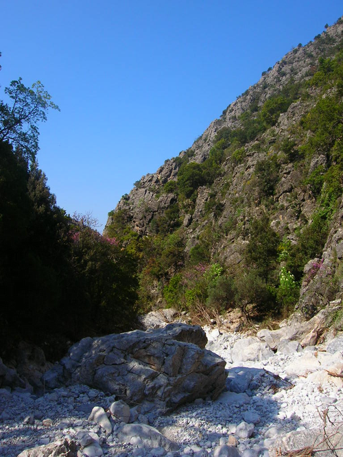 The Canyon of Byros in Greece